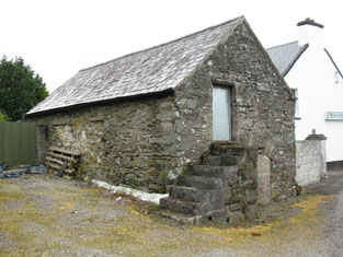 Farmhouse where the assasination of Michael Collins was planned.